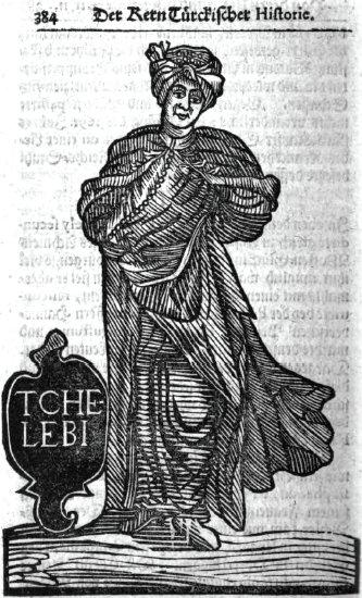 Der Kern Turkischer Geschichte (The core of Turkish history), 1739